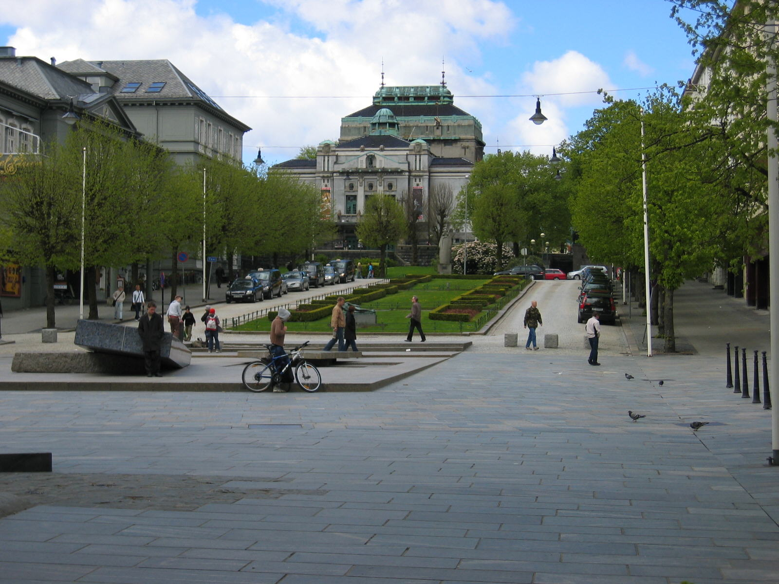 Ole Bull's Plass and The National Theater (Den Nationale Scene) in Bergen Norway